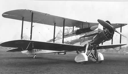 photo originally taken by a British government employee; image found on